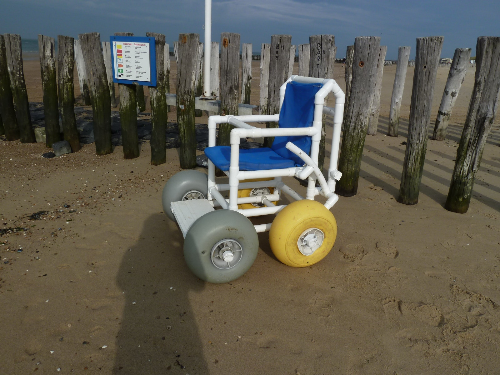 A Wheelchai that also for Seawater